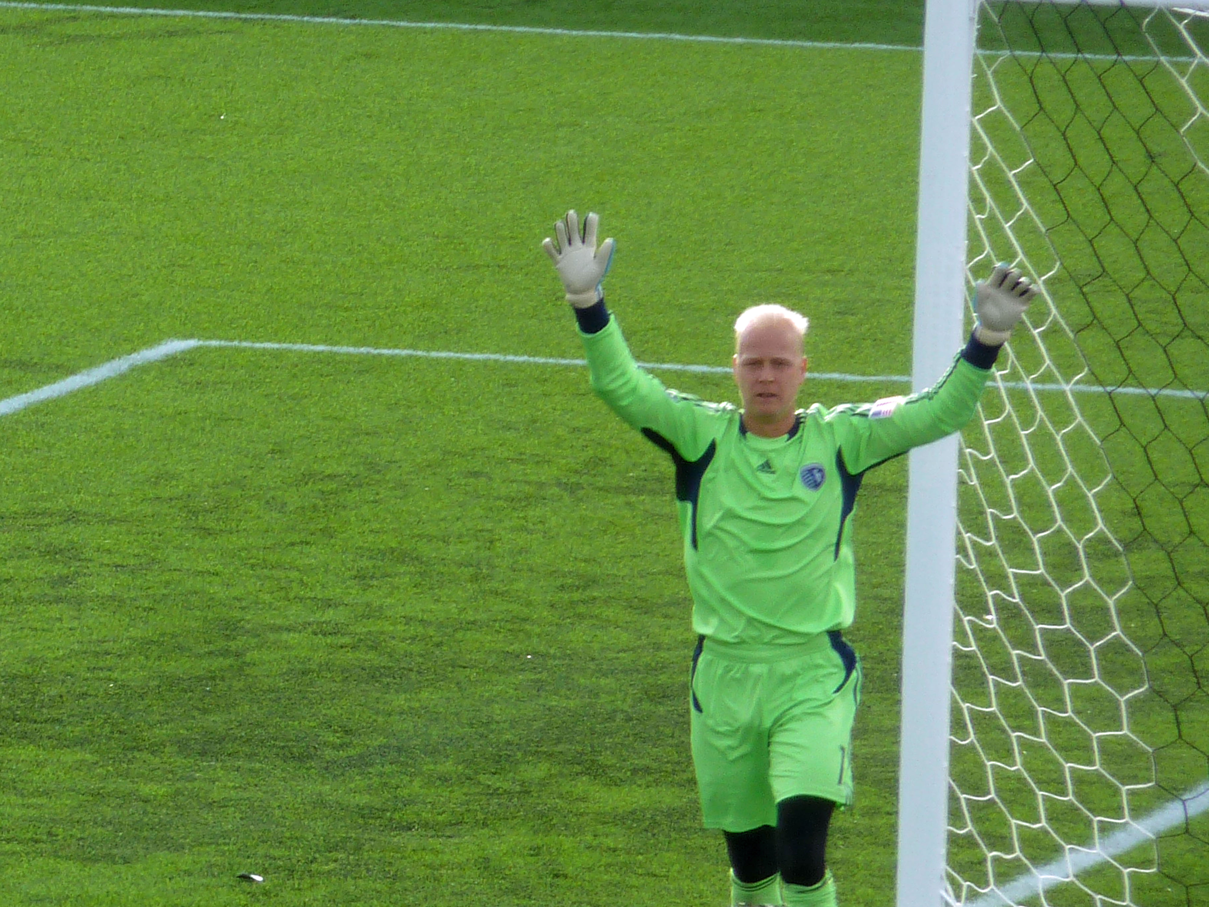 Jimmy Nielsen, goalkeeper of Sporting Kansas City, during a match against the Vancouver Whitecaps in April 2011.